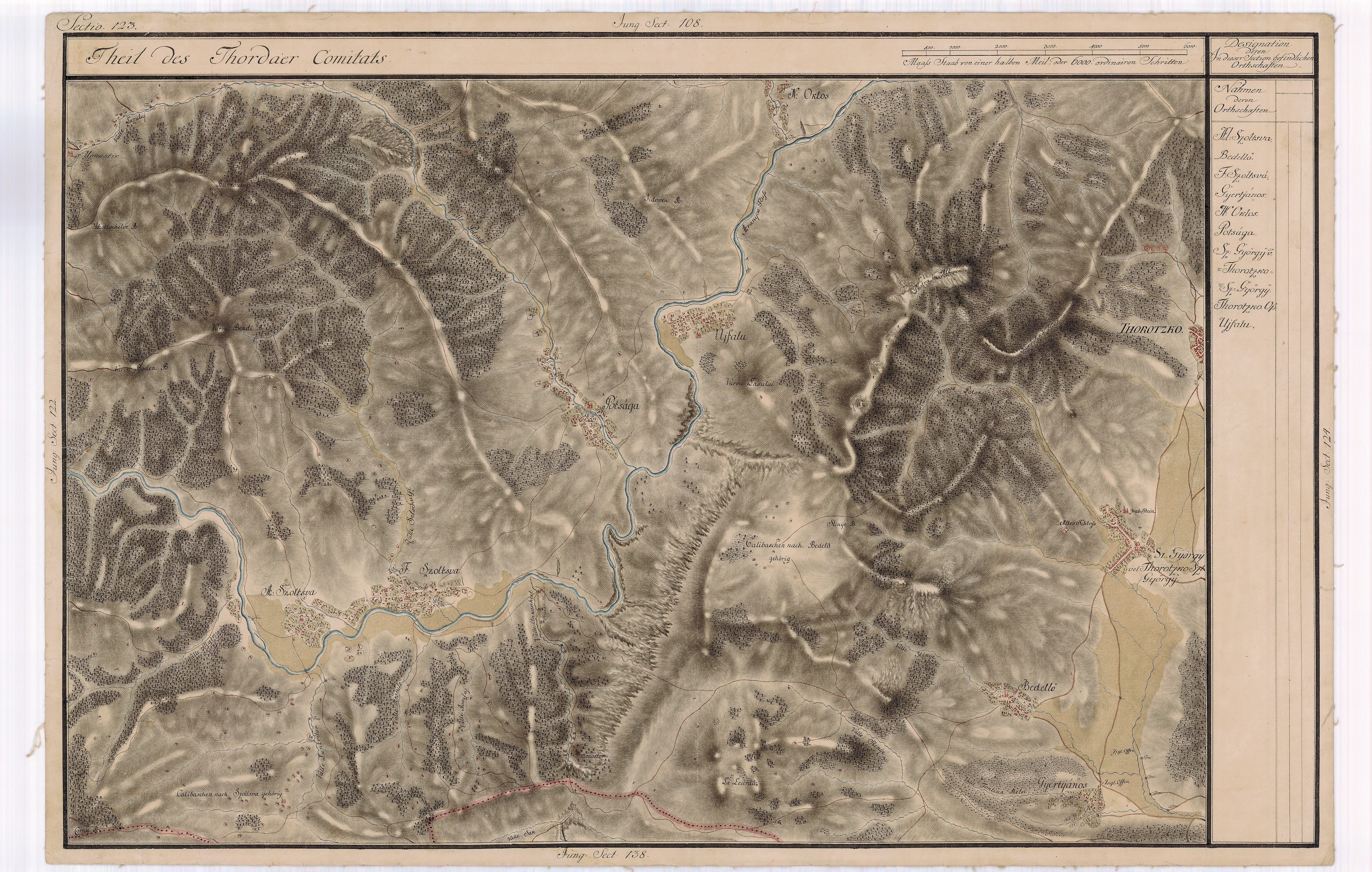 Grand Duchy of Transylvania, 1769-1773. Josephinische Landaufnahme pg.123